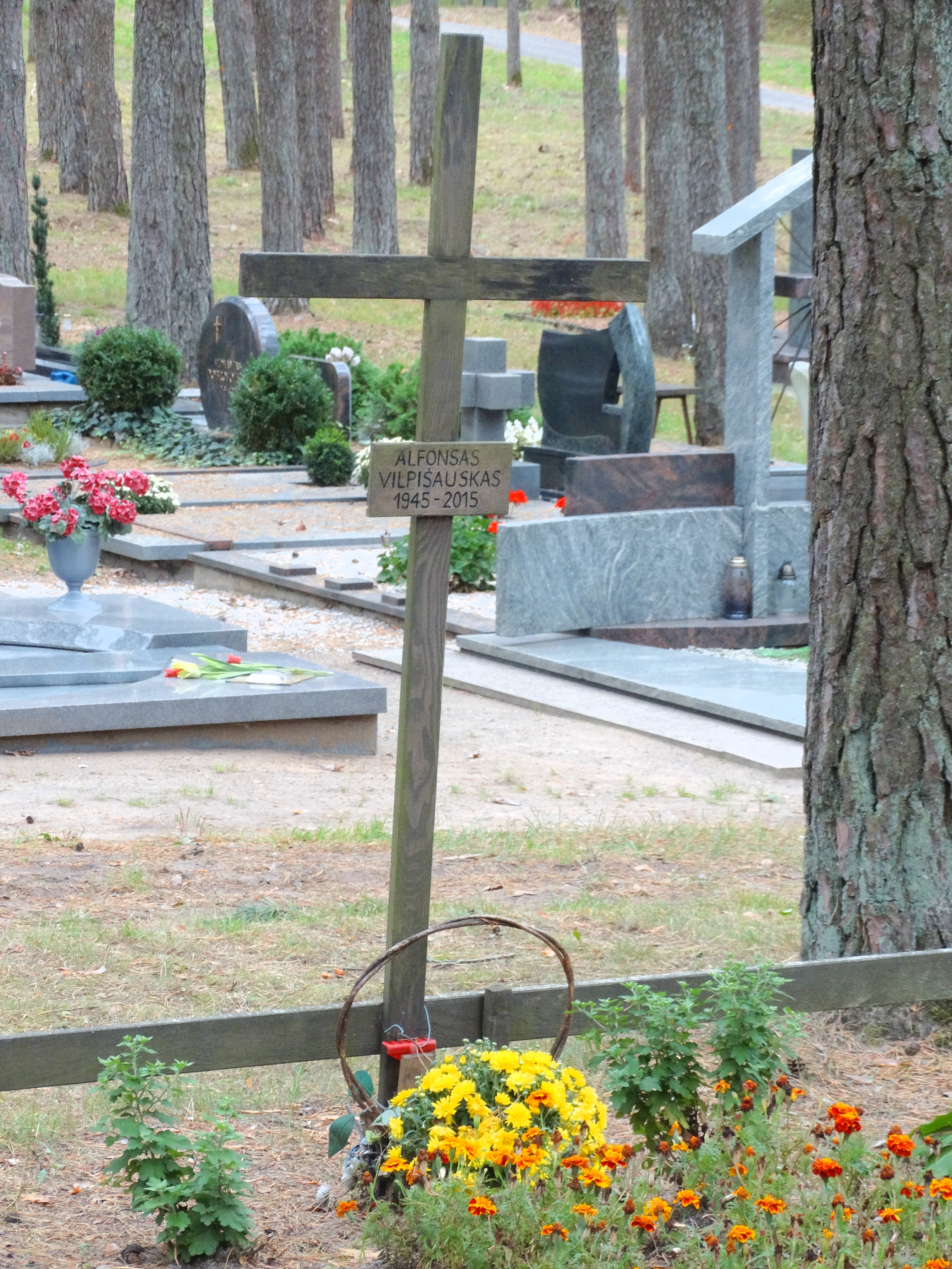 Tomb of Alfonsas Vilpišauskas, Petrašiūnai, Lithuania